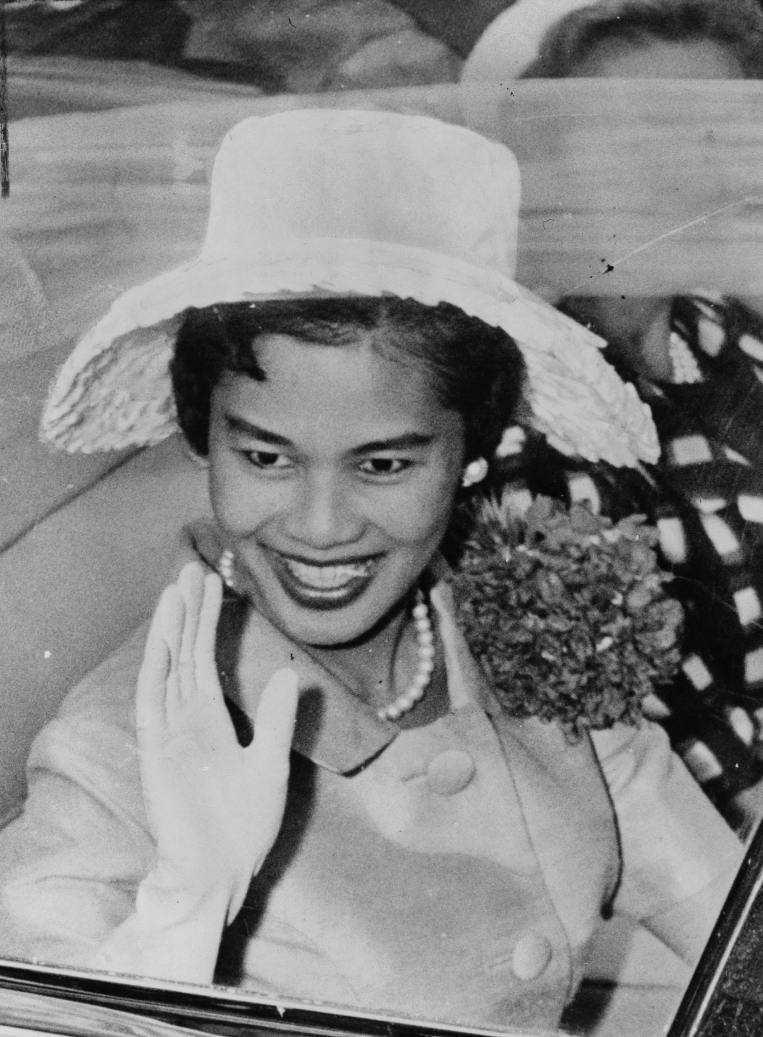 Queen Sirikit of Thailand, seated in car, waving, probably during ticker tape parade, New York City